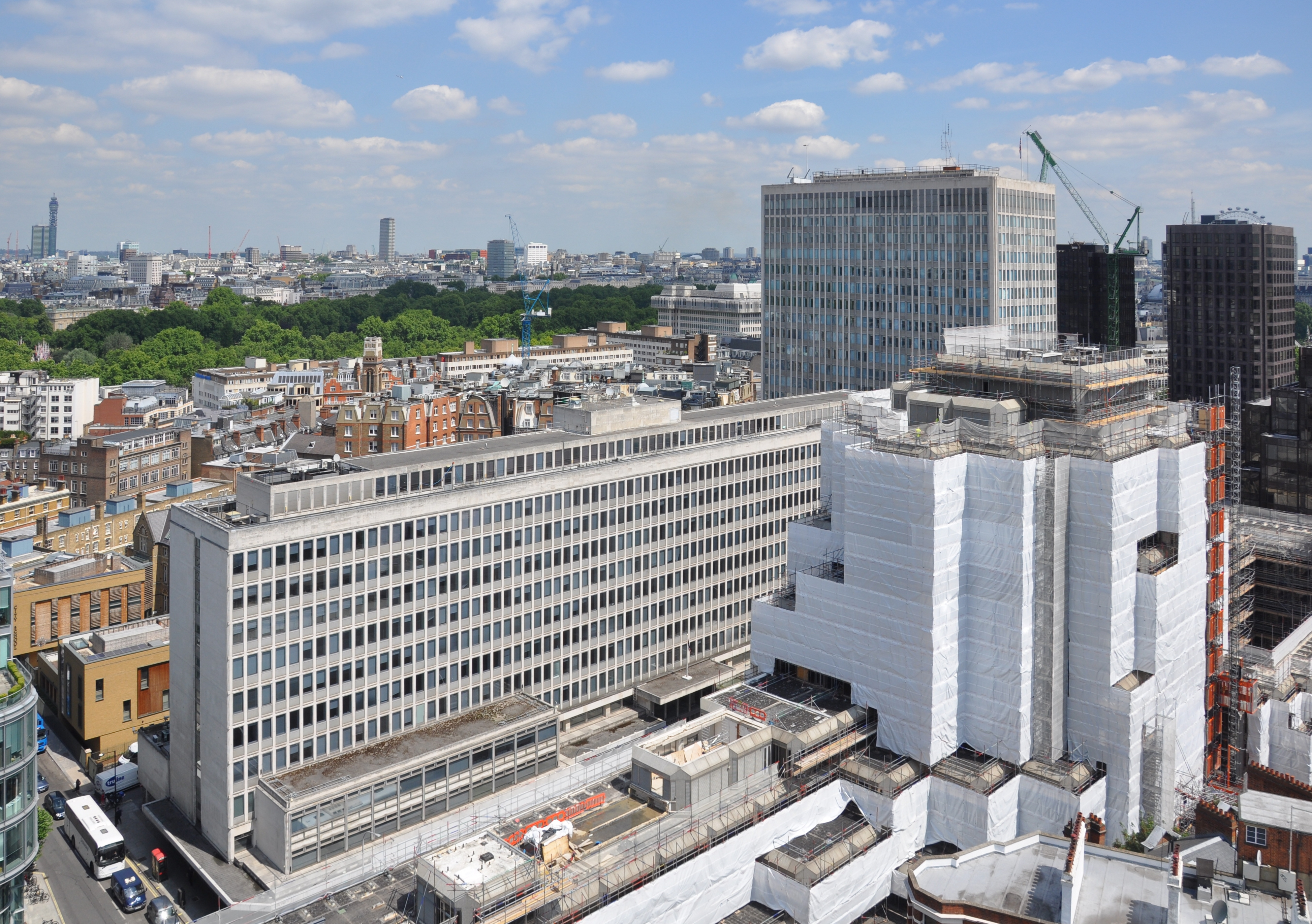 London, view from the tower of Westminster Cathedral: Westminster City Hall